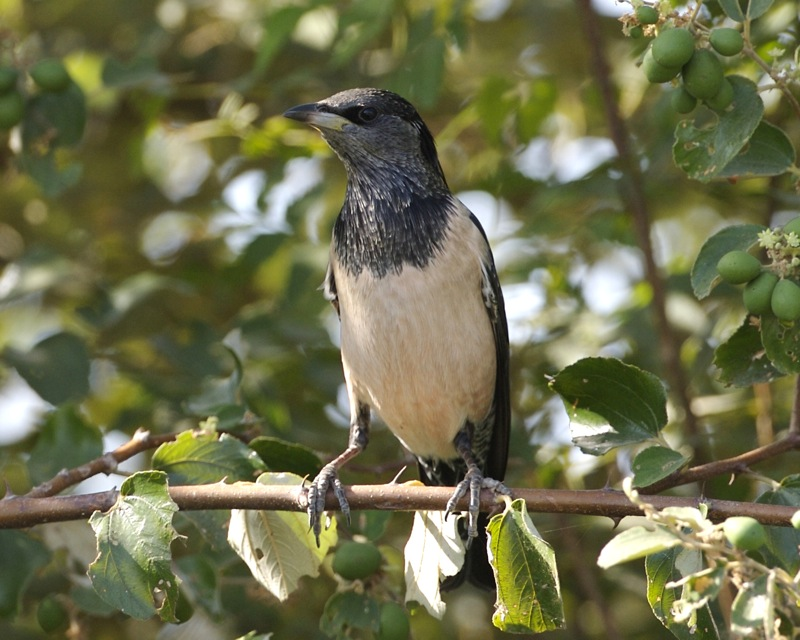 Rosy Starling (Pastor roseus), adult Sturnus roseus (Clements 4th ed) Pastor roseus (Clements 6th ed) Location: Little Rann of Kutch , Gujerat, India 28th. November 2006